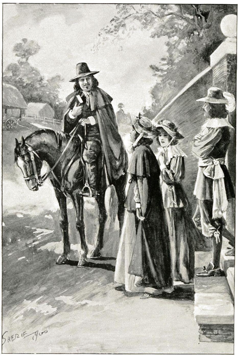 jpg of image on page 324 of File:True stories of girl heroines.djvu